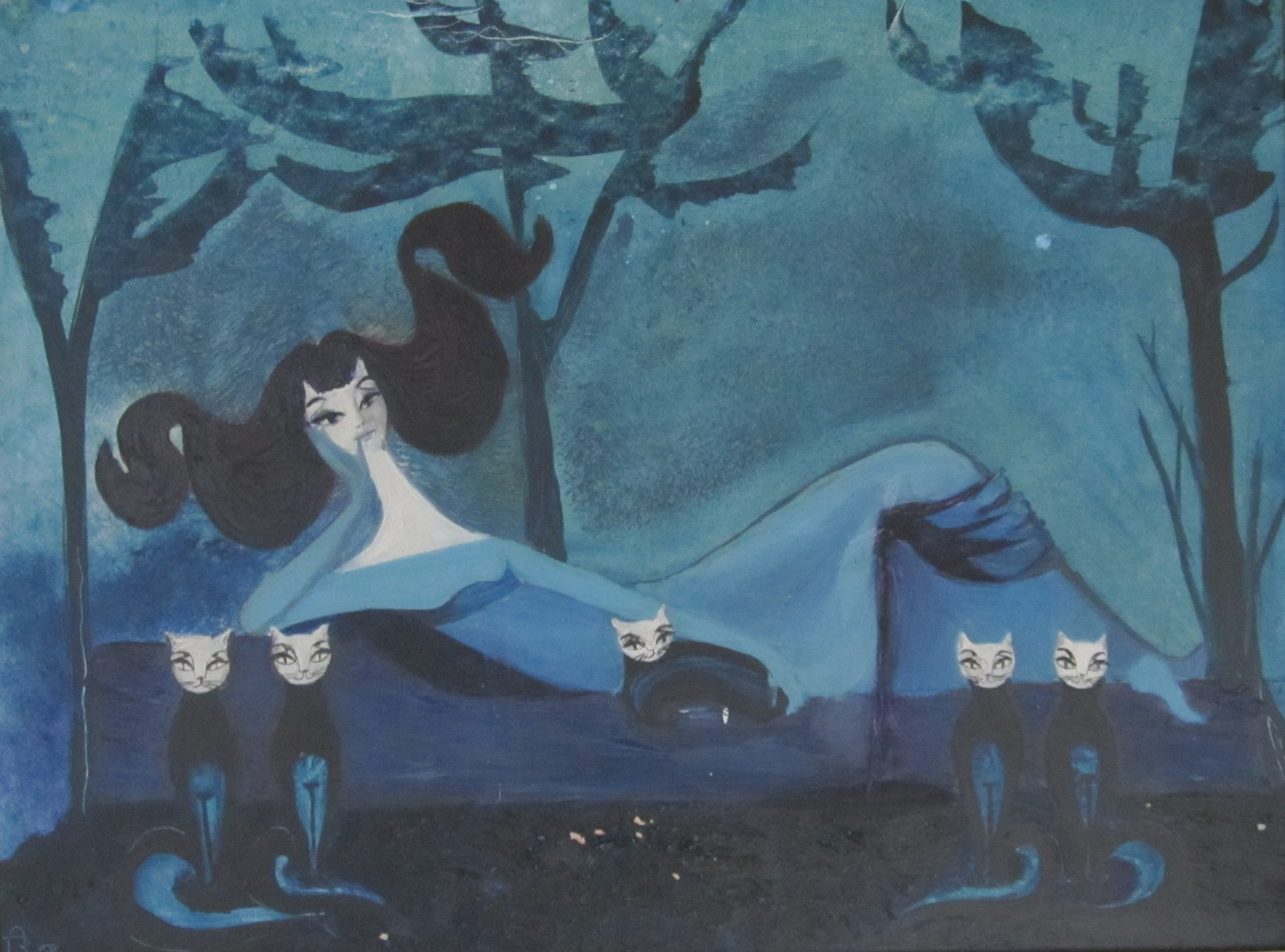 Painting by Aiga Rasch, 1958, Die Katzenprinzessin (translation: Princess of Cats), owener: Matthias Bogucki, Germany